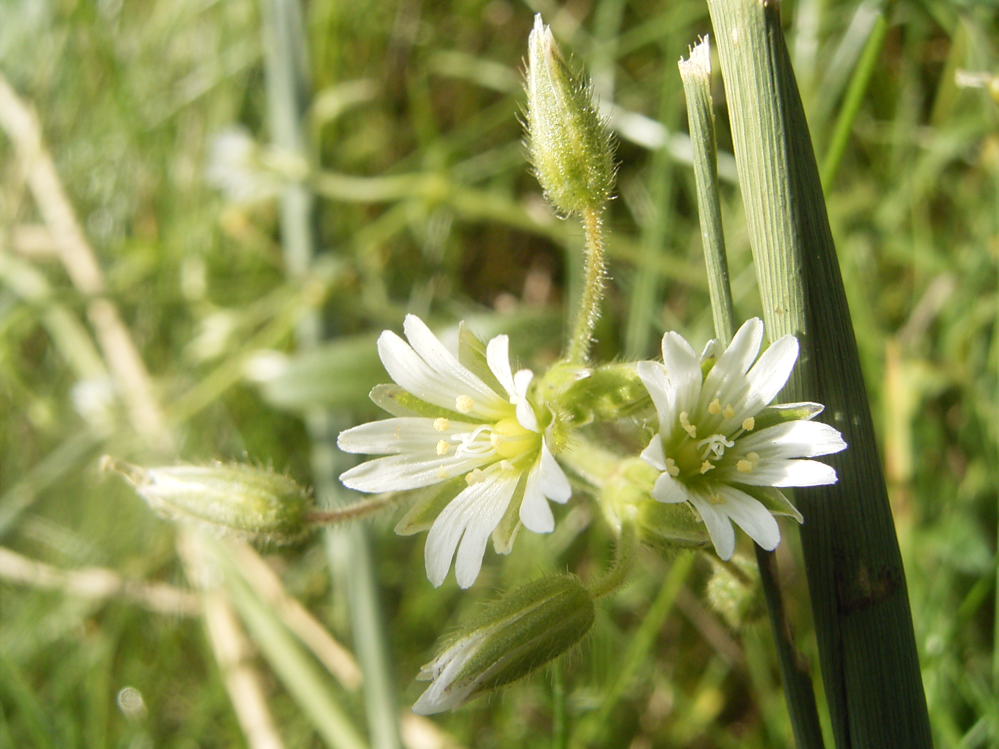 This photo shows Cerastium fontanume'